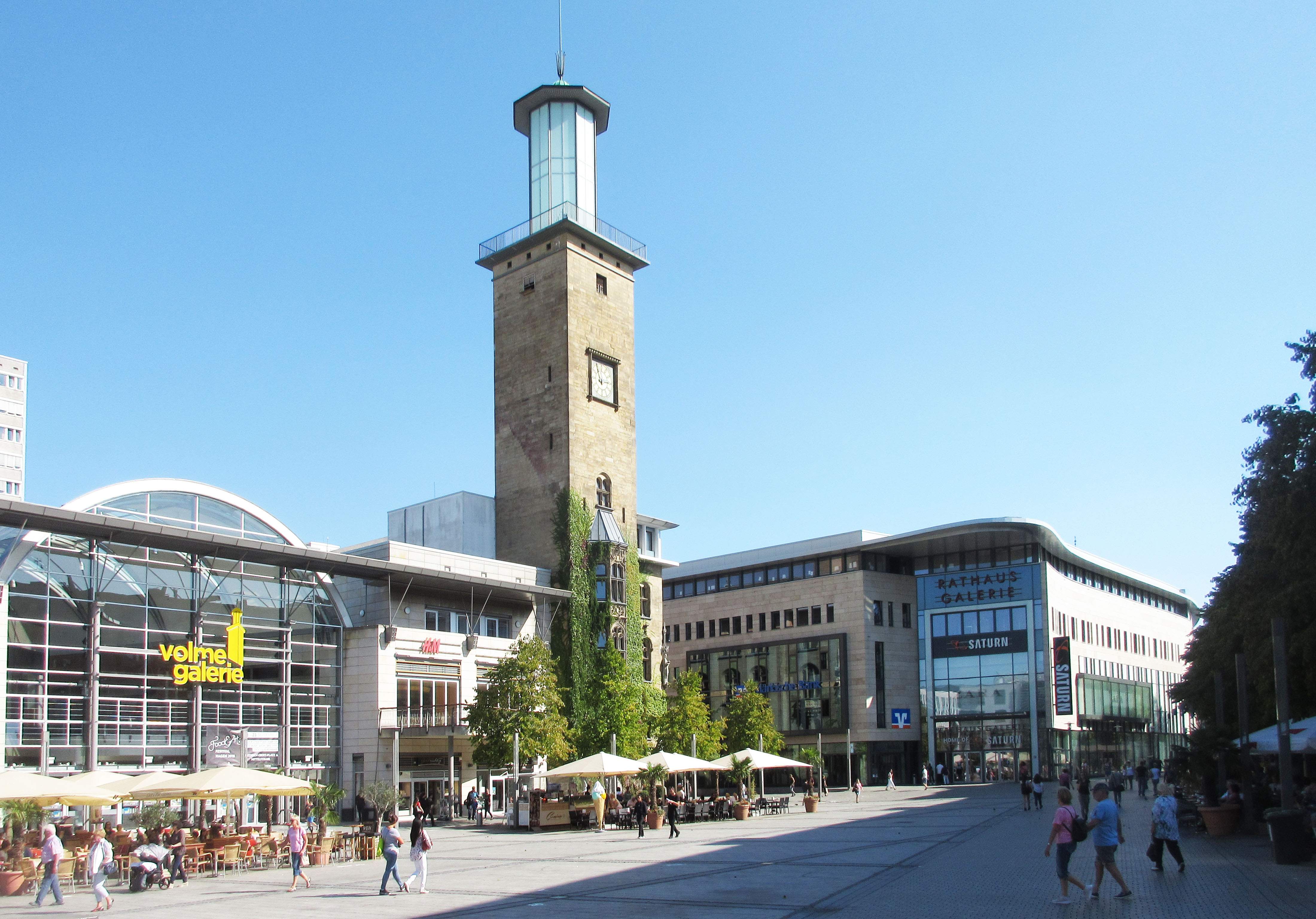 Hagen Town Hall